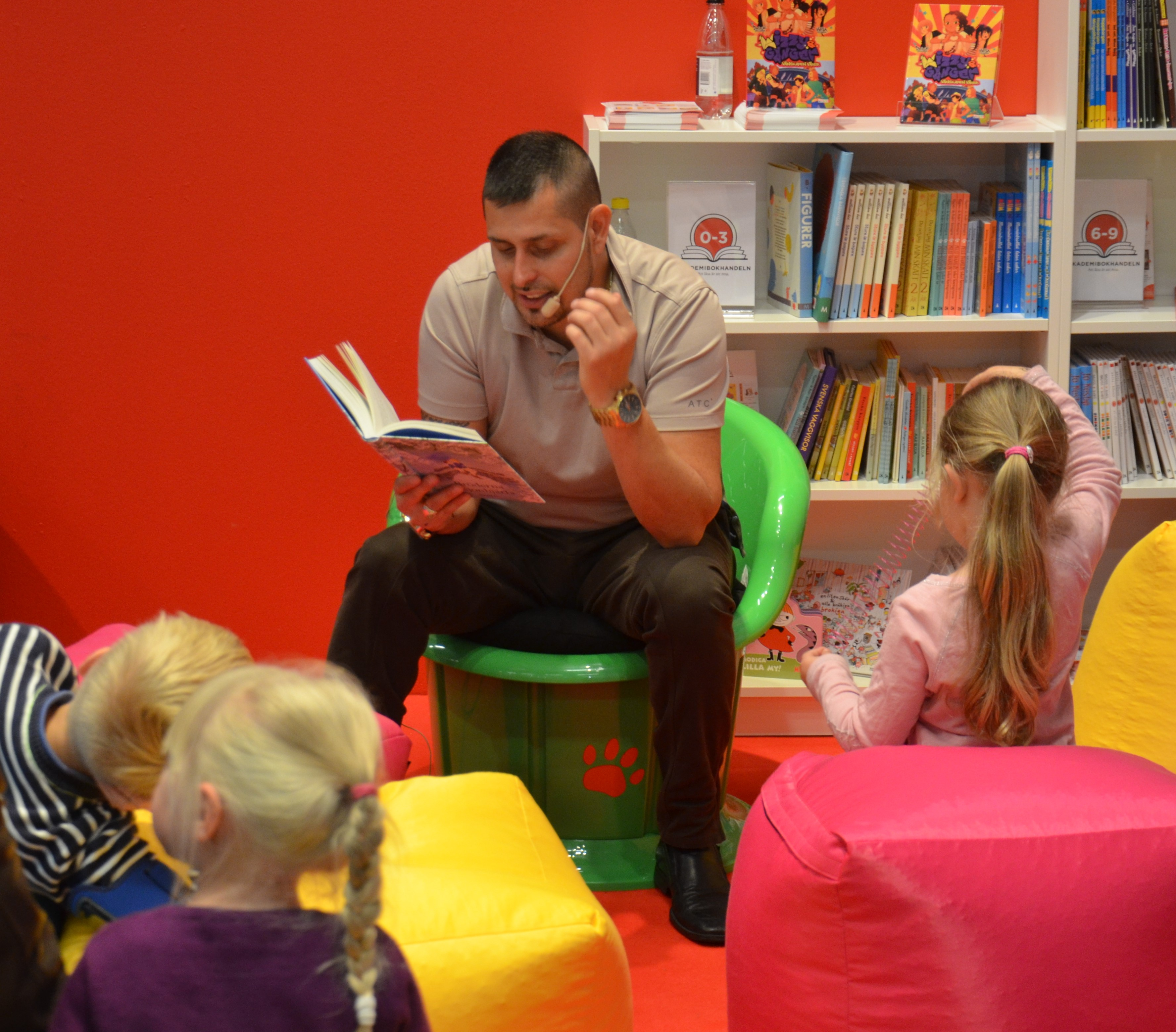 Dogge Doggelito på Bokmässan i Göteborg 2014